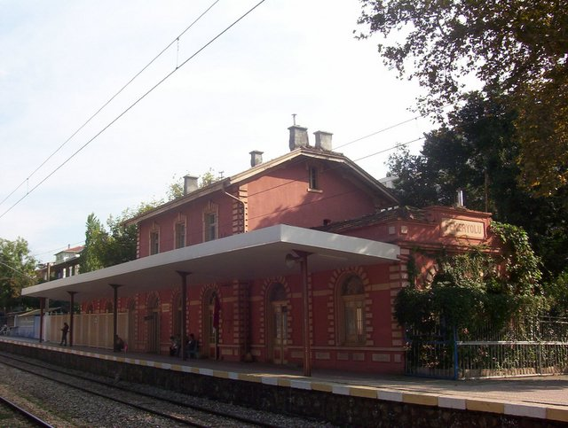 Feneryolu railway station before reconstruction.